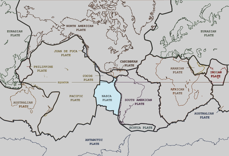 Major tectonic plates; Nazca plate is highlightied